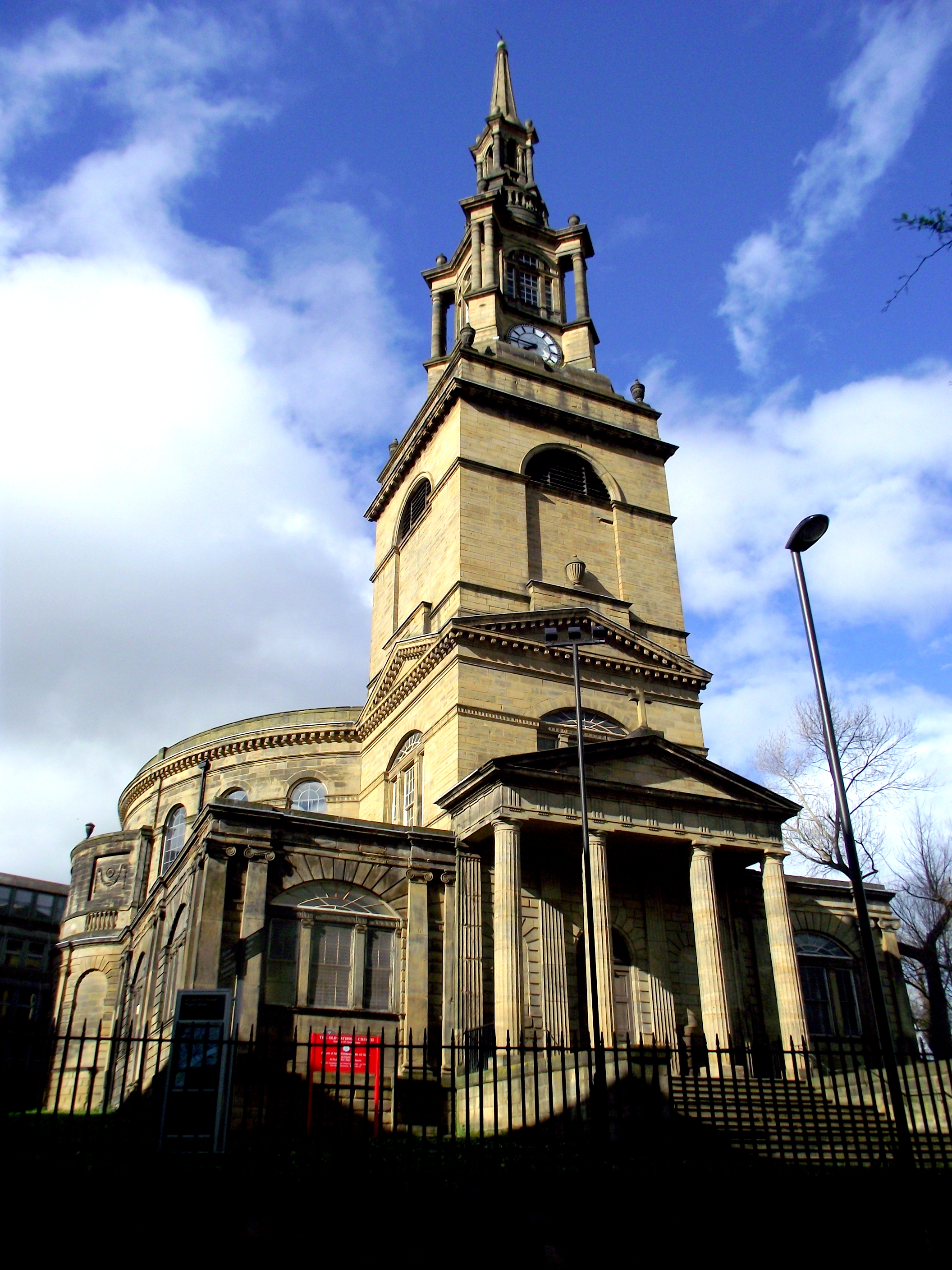 All Saints Church, Newcastle taken in 2014